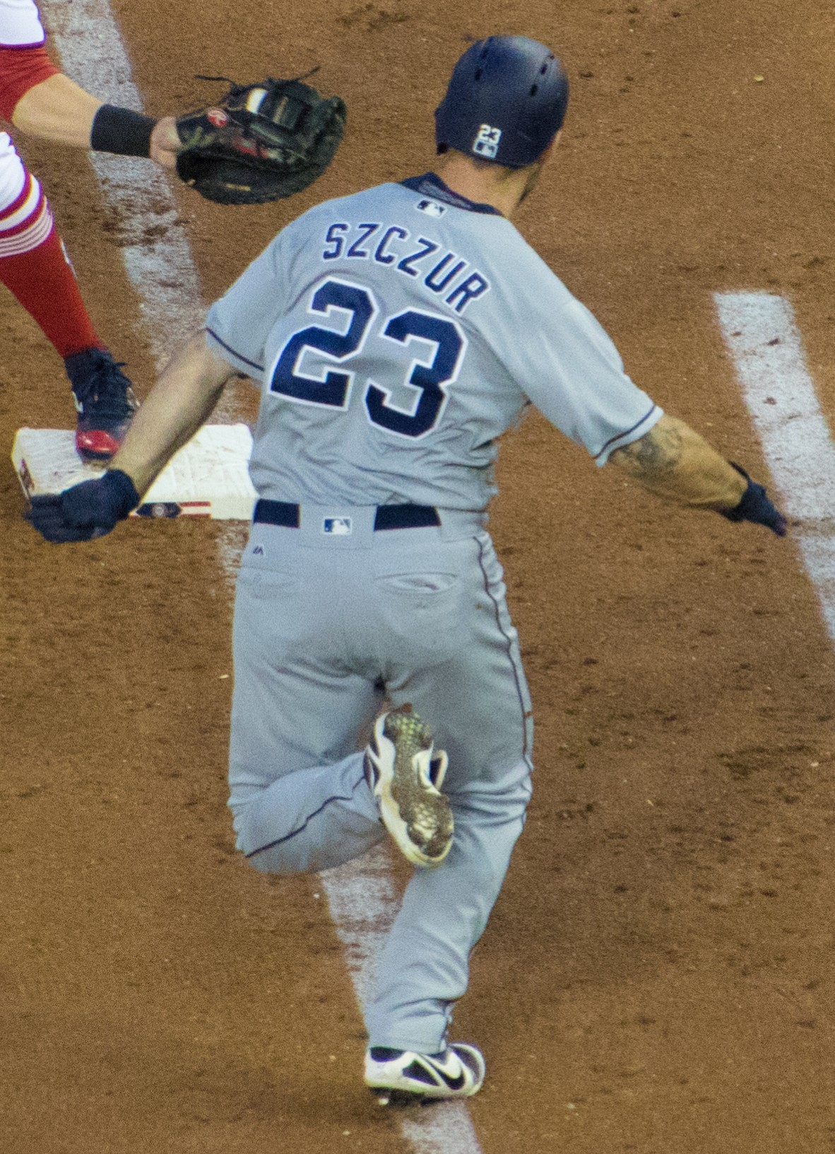 Matt Szczur